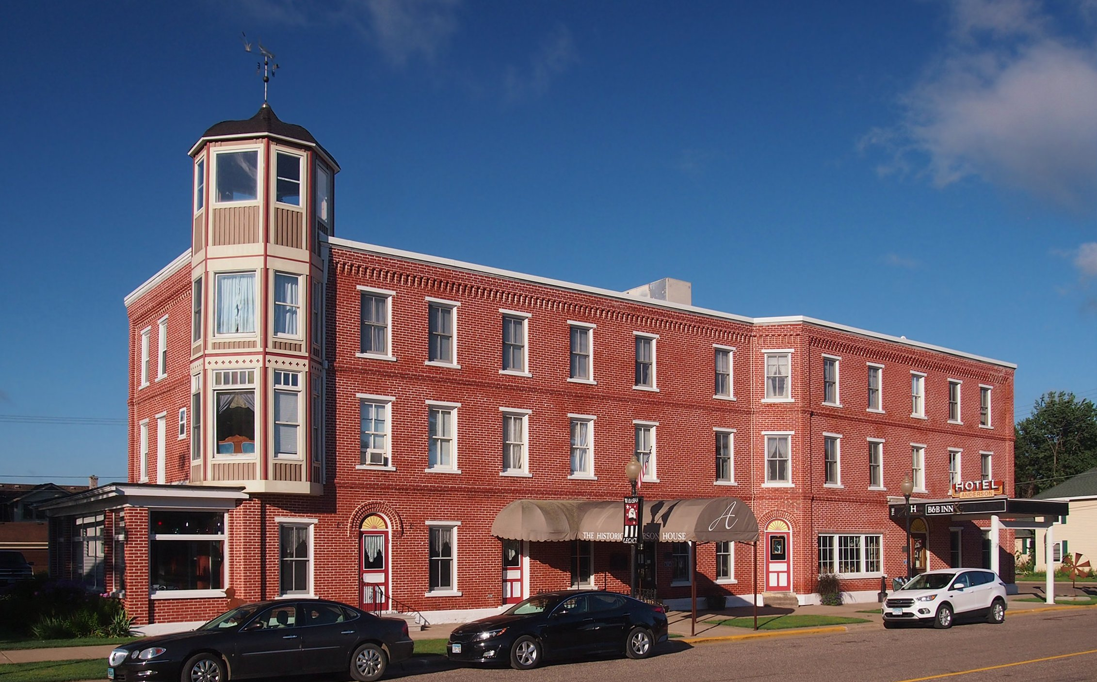 Historic Anderson House Hotel, 333 W Main St, Minnesota, USA. Viewed from the northeast.